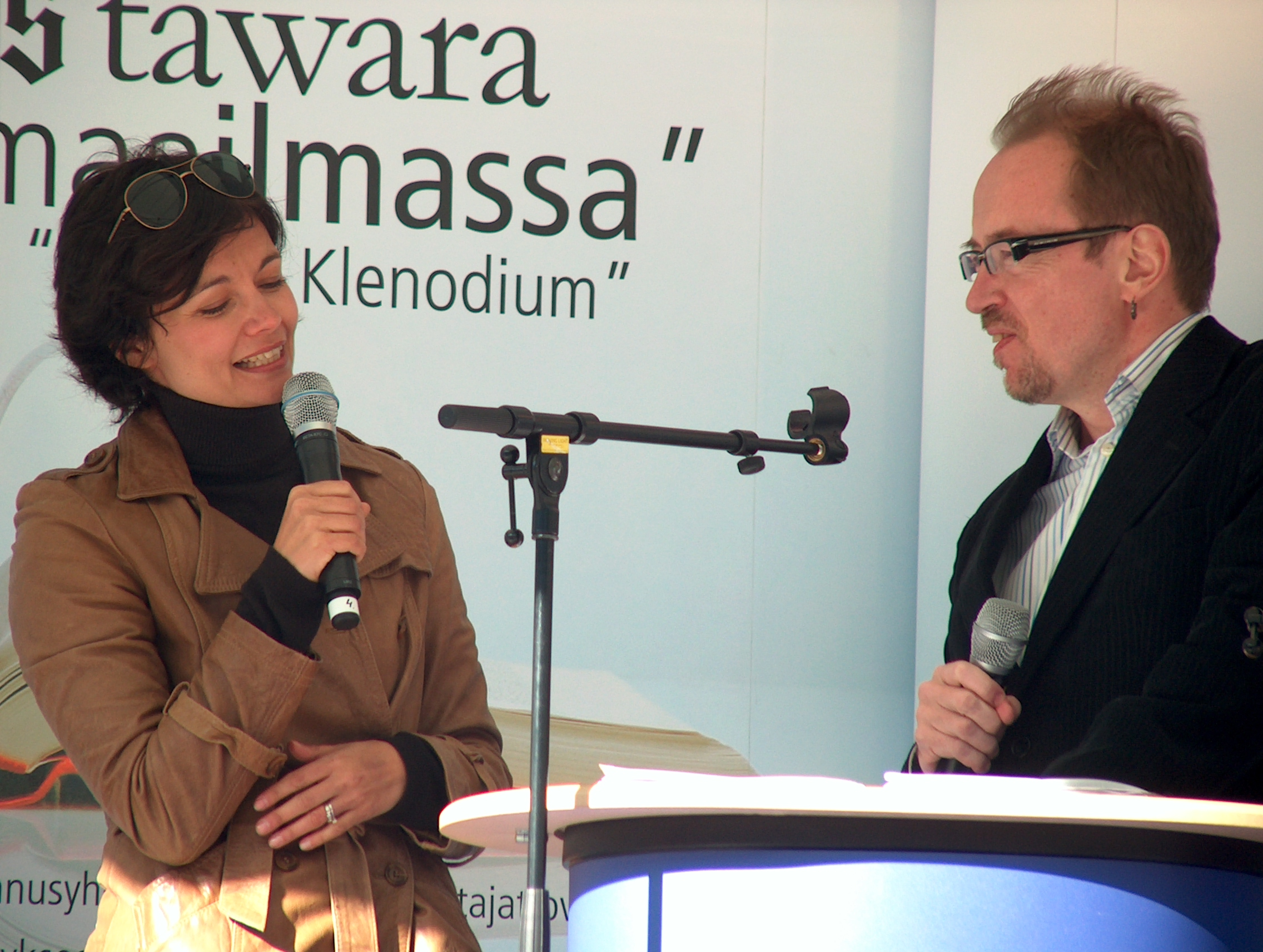 Finnish columnist and politician Kirsi Piha interviewed by journalist Juha Roiha on World Book Day 2008 in Helsinki